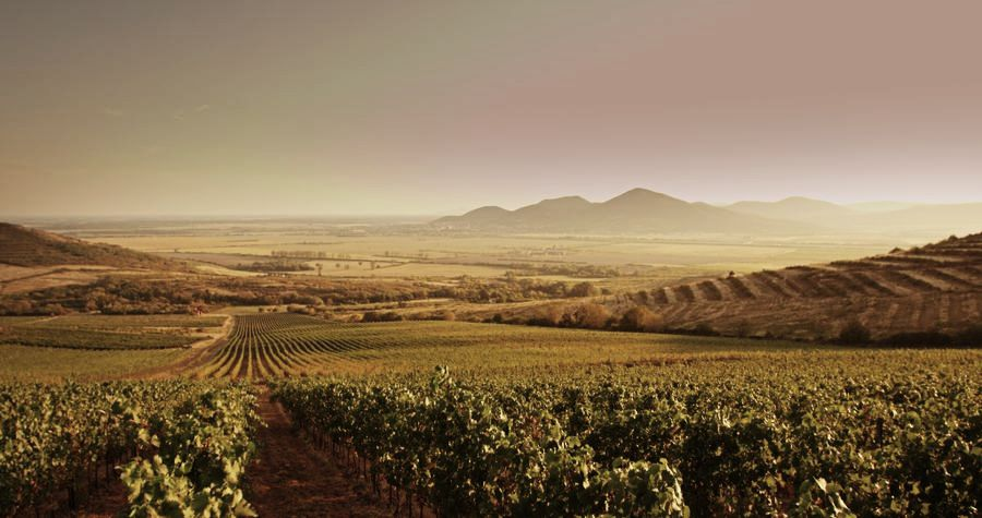 Vineyards in Slovakian occupied part of the Tokaj wine region